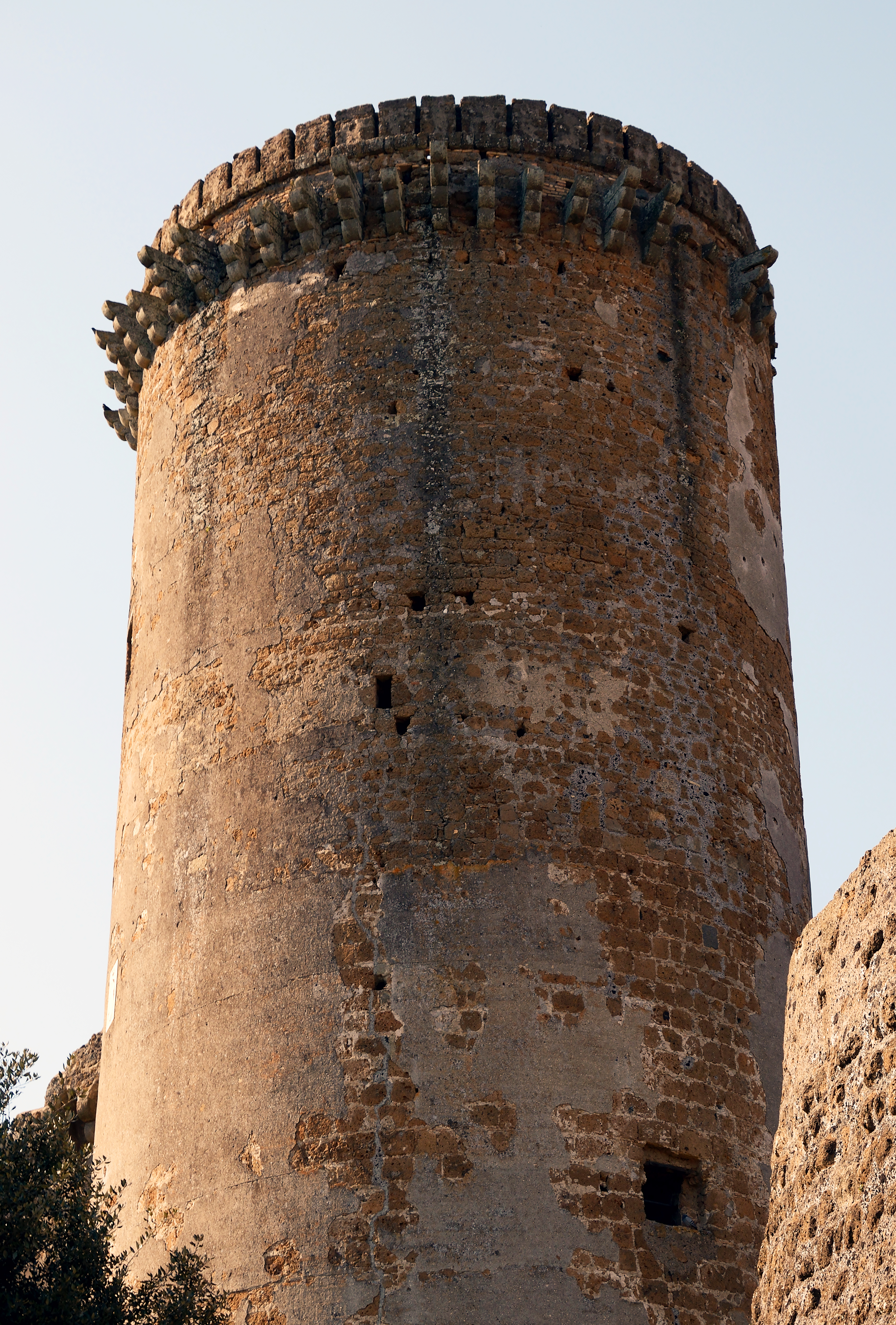 Tower of the Rocca di Nepi (Borgia Castle)